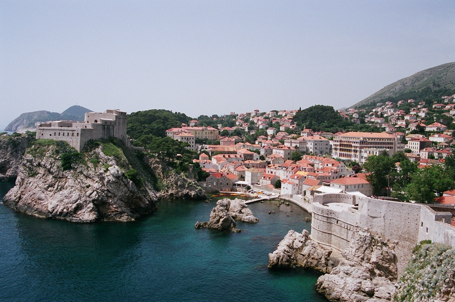 View of Dubrovnik's old port